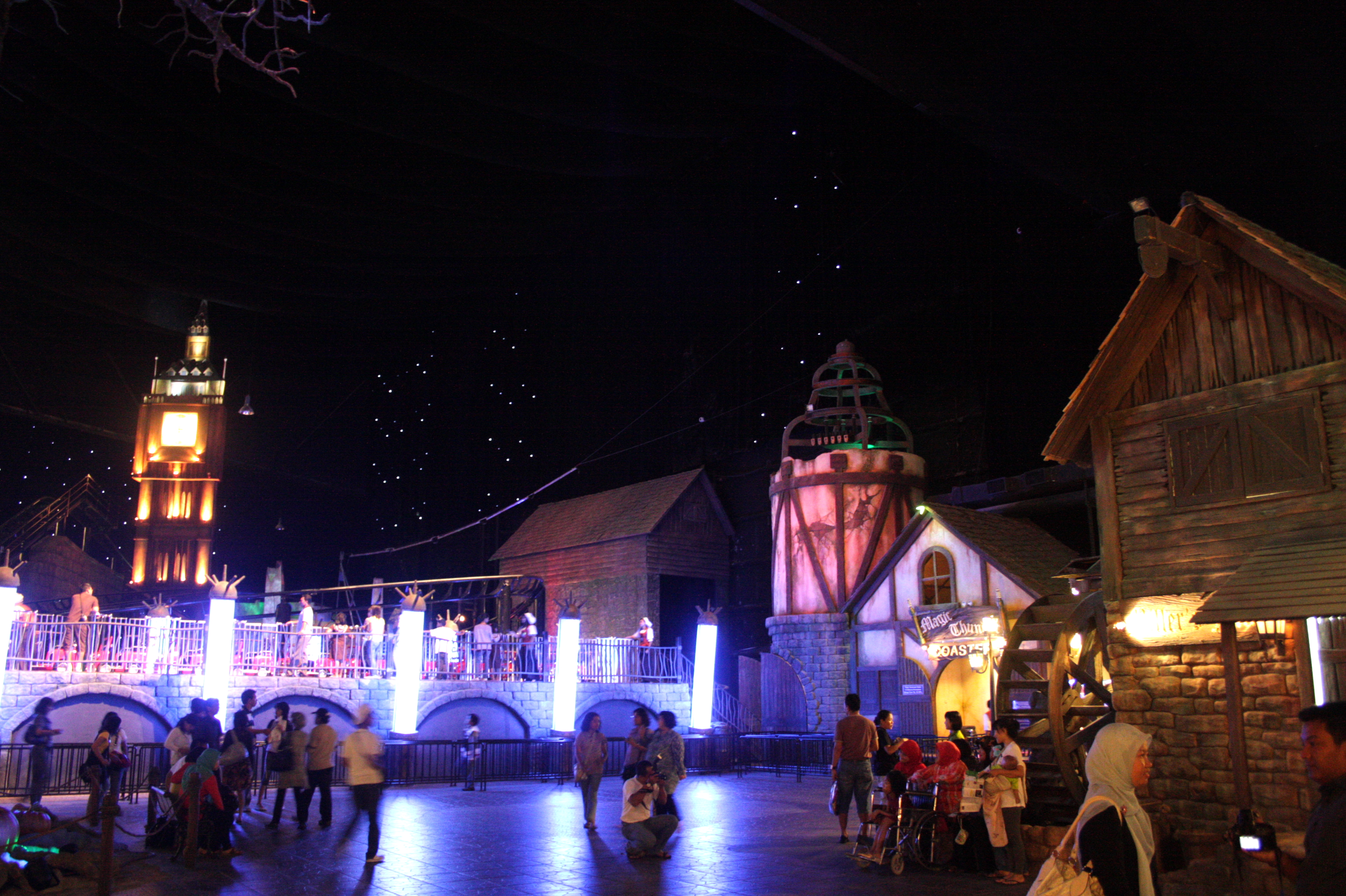 Trans Studio Makassar 2010